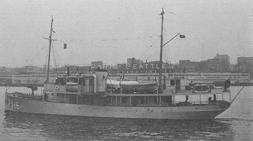 Image comes from the public domain DANFS (Directory of American Naval Fighting Ships)